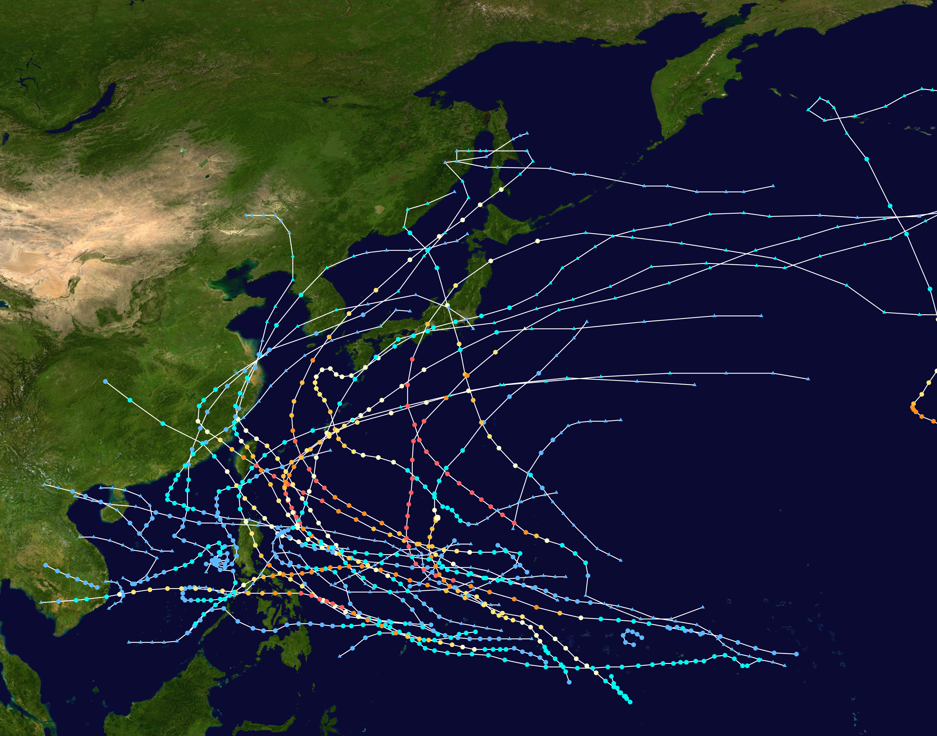 This map shows the tracks of all tropical cyclones in the 1959 Pacific typhoon season. The points show the location of each storm at 6-hour intervals. The colour represents the storm's maximum sustained wind speeds as classified in the Saffir-Simpson Hurricane Scale (see below), and the shape of the data points represent the nature of the storm. Saffir–Simpson hurricane wind scale Tropical depression≤38 mph≤62 km/h Category 3111–129 mph178–208 km/h Tropical storm39–73 mph63–118 km/h Category 4130–156 mph209–251 km/h Category 174–95 mph119–153 km/h Category 5≥157 mph≥252 km/h Category 296–110 mph154–177 km/h Unknown Storm typeTropical cycloneSubtropical cycloneExtratropical cyclone / Remnant low / Tropical disturbance